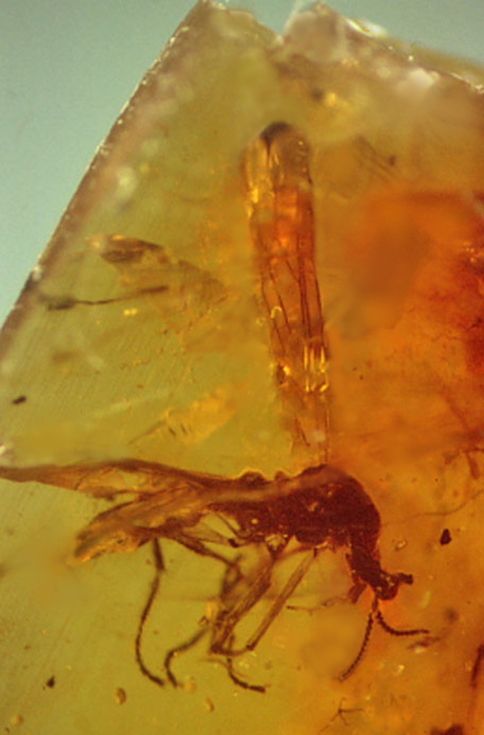 This ancient Cascoplecia species "unicorn" fly lived 100 million years ago in Burma has a "horn" in the center of its forehead, capped with three small eyes.